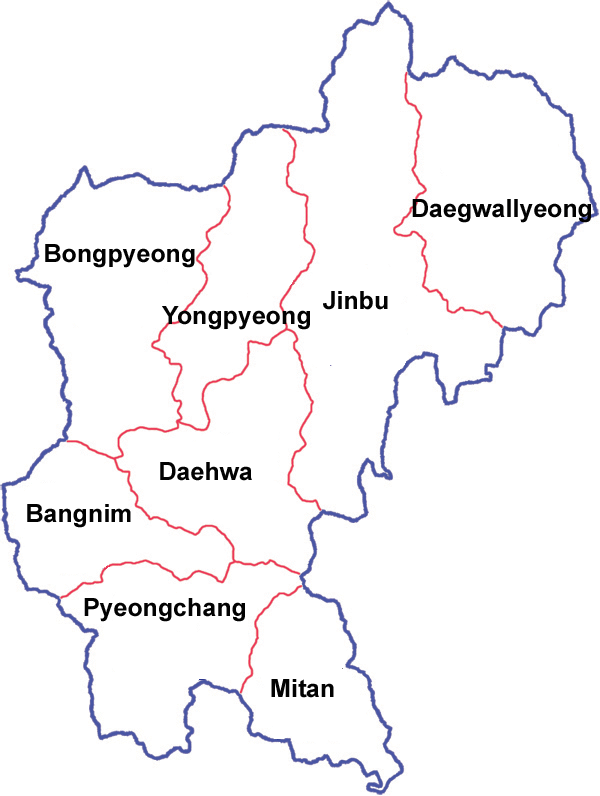 Pyeongchang map, translation, based on Korean Version at ko-WP